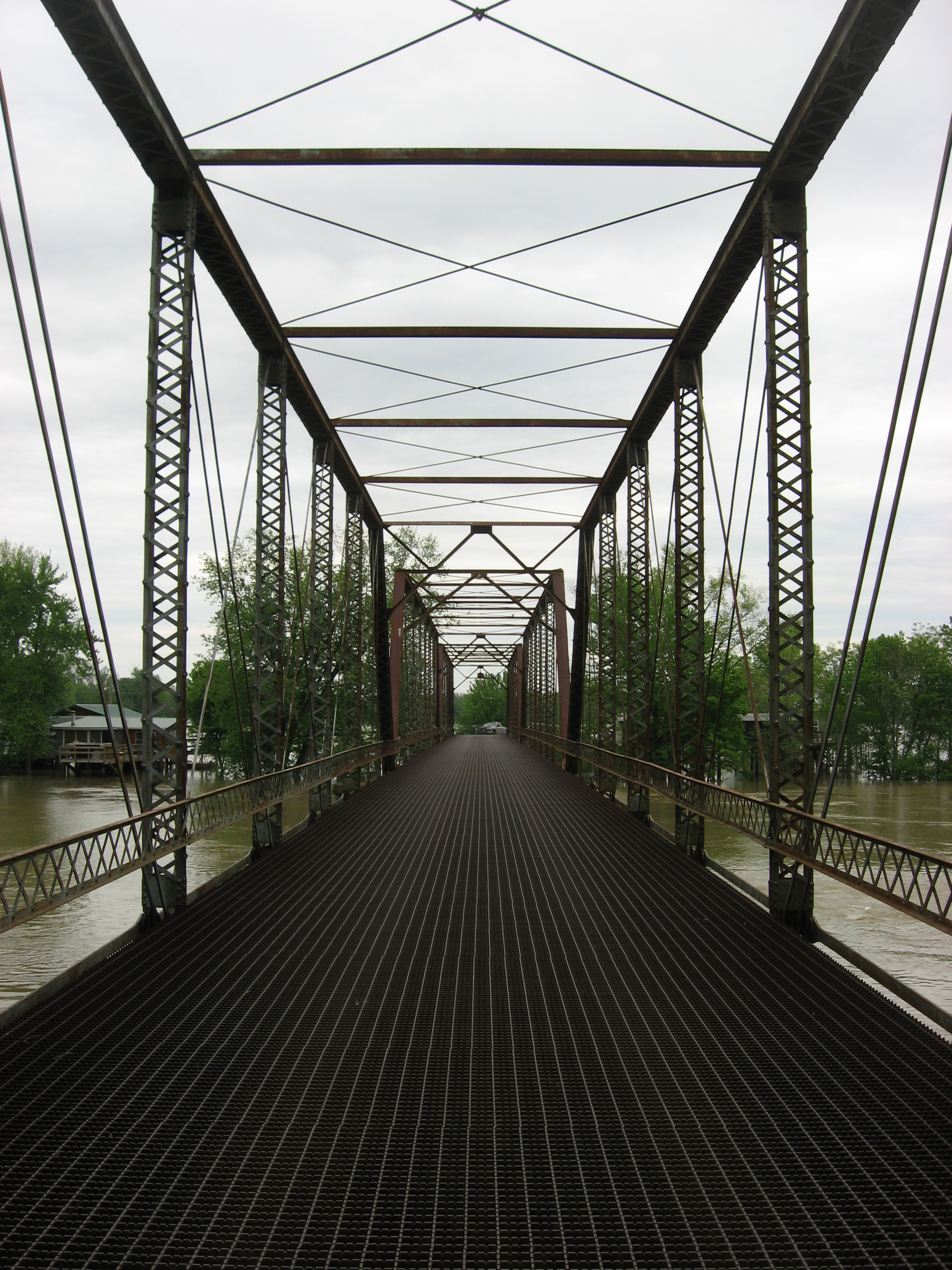 Looking eastward inside the County Bridge No. 45, which carries County Road 229 (Knox County)/County Road 150N (Daviess County) over the White River northeast of Wheatland, Indiana, United States. Built in 1903, it is listed on the National Register of Historic Places. This photograph is taken at a time of flooding: the houses and trees visible in the distance are normally on the far side of the river, not in its middle.